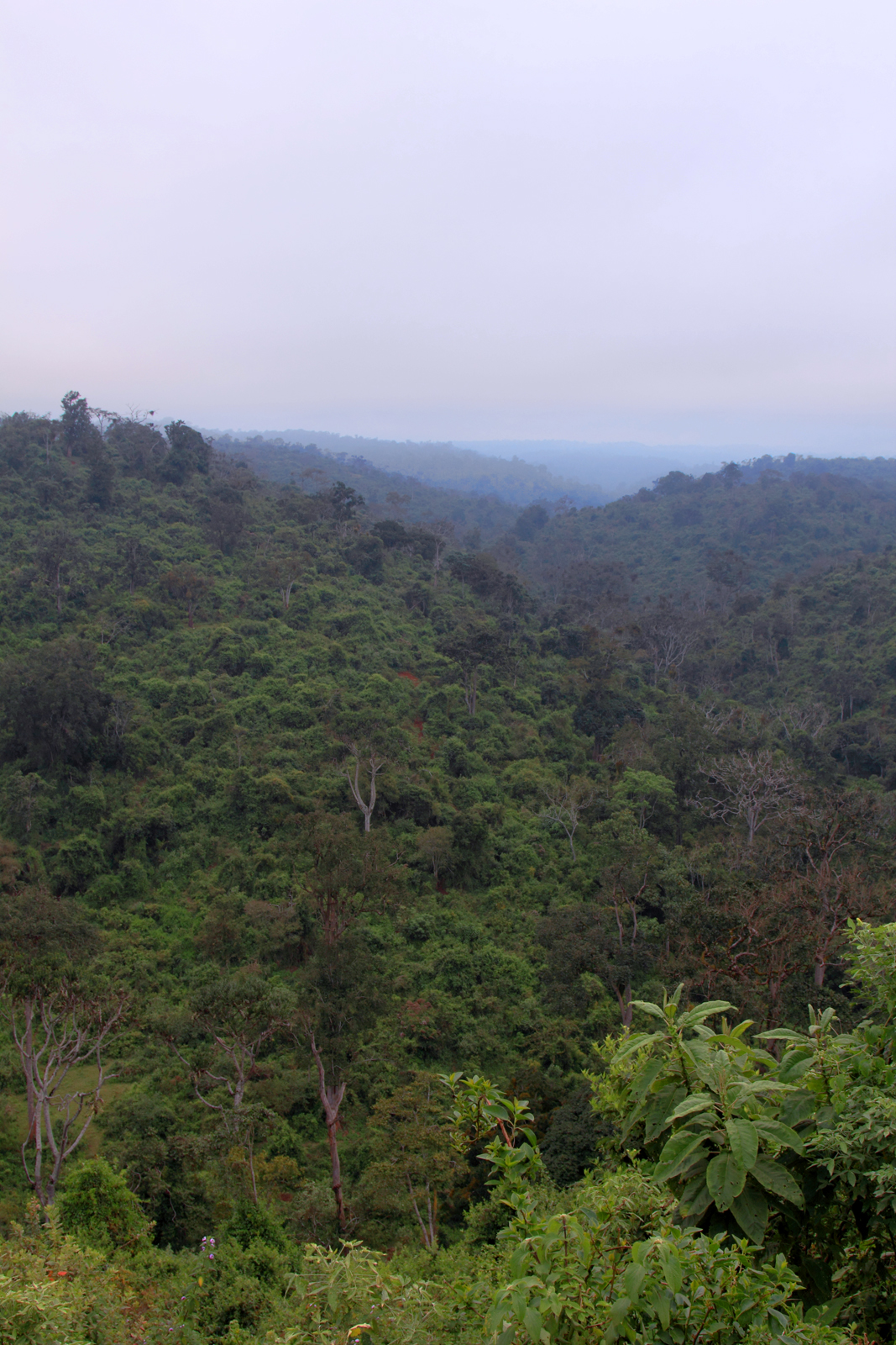 Aberdare National Park (Kenya)